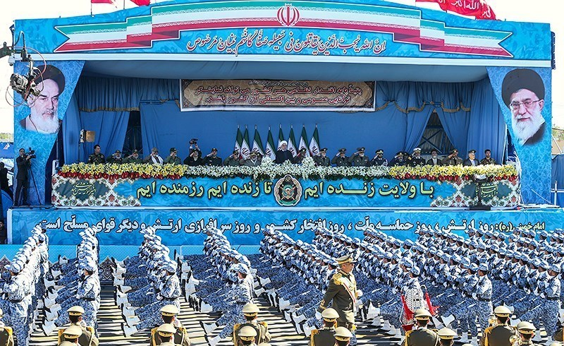 Iran Army parade in 29 Farvardin (17 April).